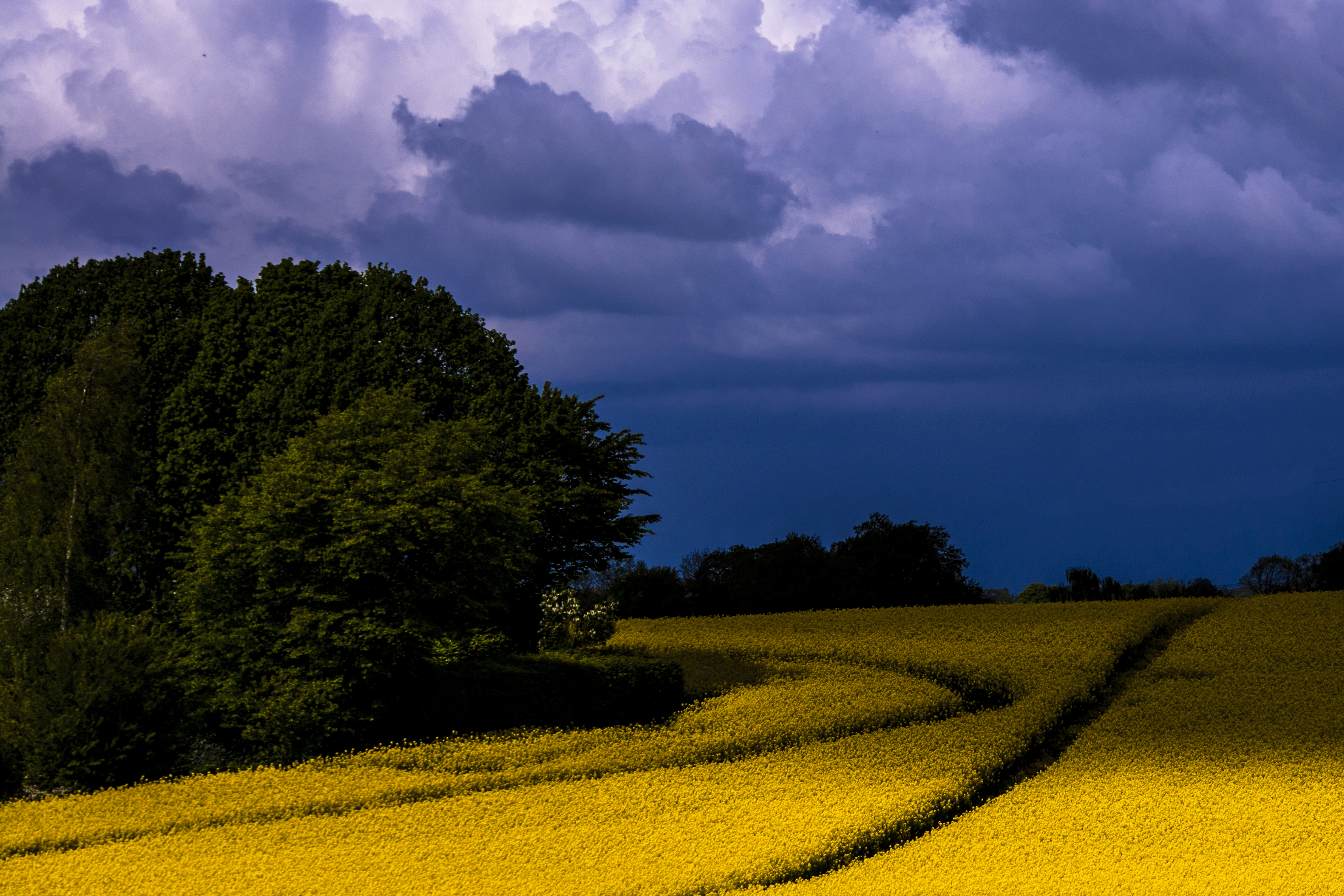 Rapeseed Brassica napus